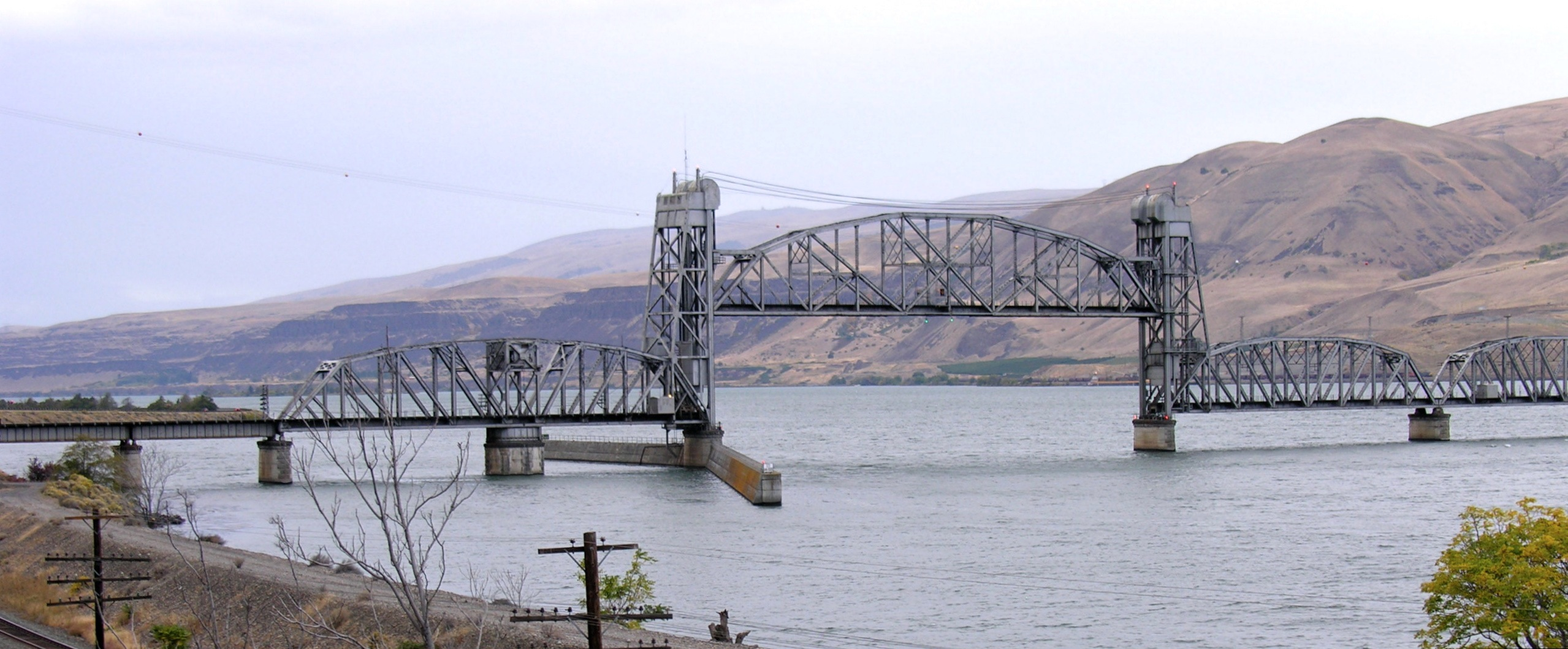 The southernmost portion of the Oregon Trunk Rail Bridge (or Celilo Bridge), viewed from the southeast, on the Oregon side of the Columbia River, looking towards Washington. The bridge was built in 1911 and opened in January 1912, but did not originally include a vertical-lift span. The truss span at left is a former swing span. The lift span was installed in 1957 to replace the swing span's function, and the swing span has been inoperable since 1956.